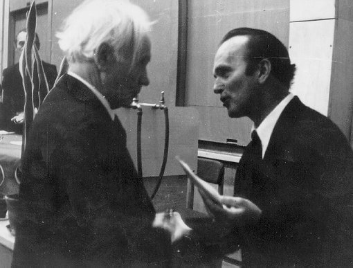 Ambrus Ábrahám (left) and Géza Fodor Rector of the University (right), 1973